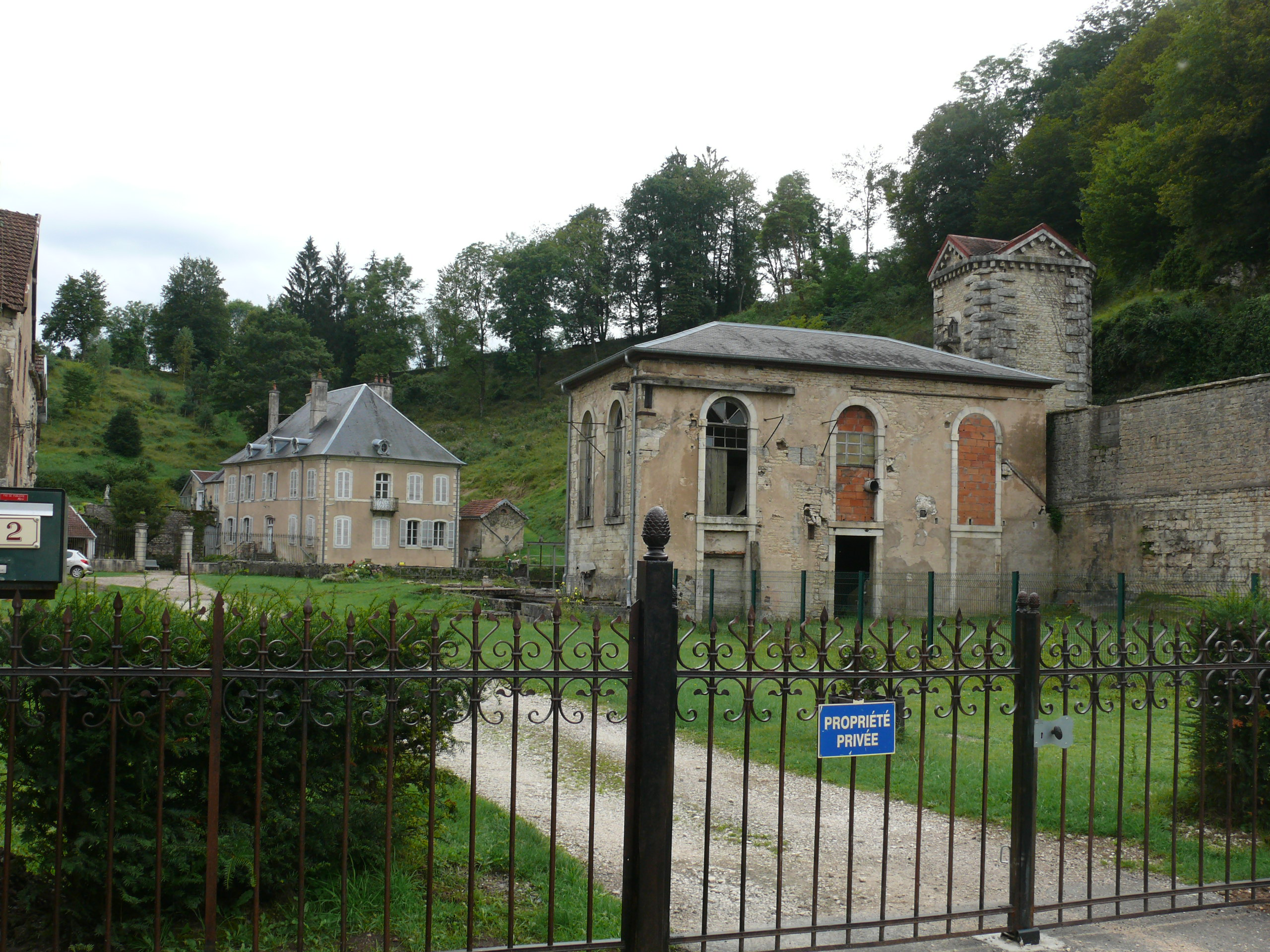 Various buildings of the forge in Baignes (Haute-Saône, France), including the house of the master.